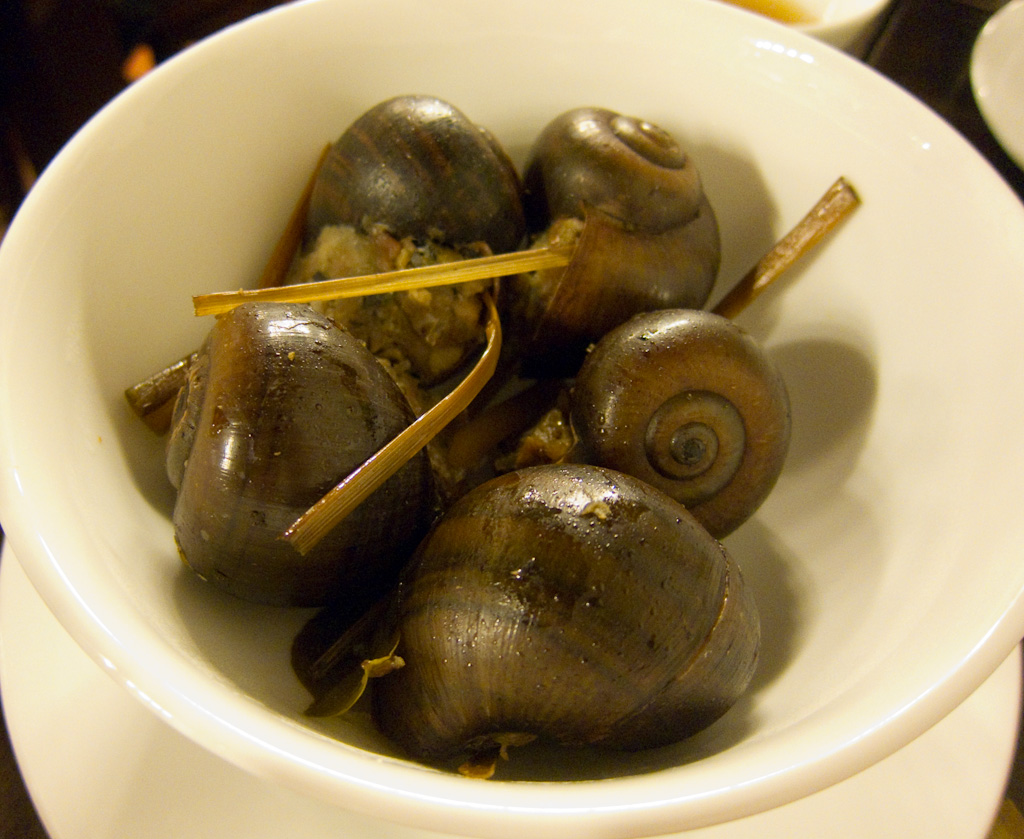 Snails stuffed with pork